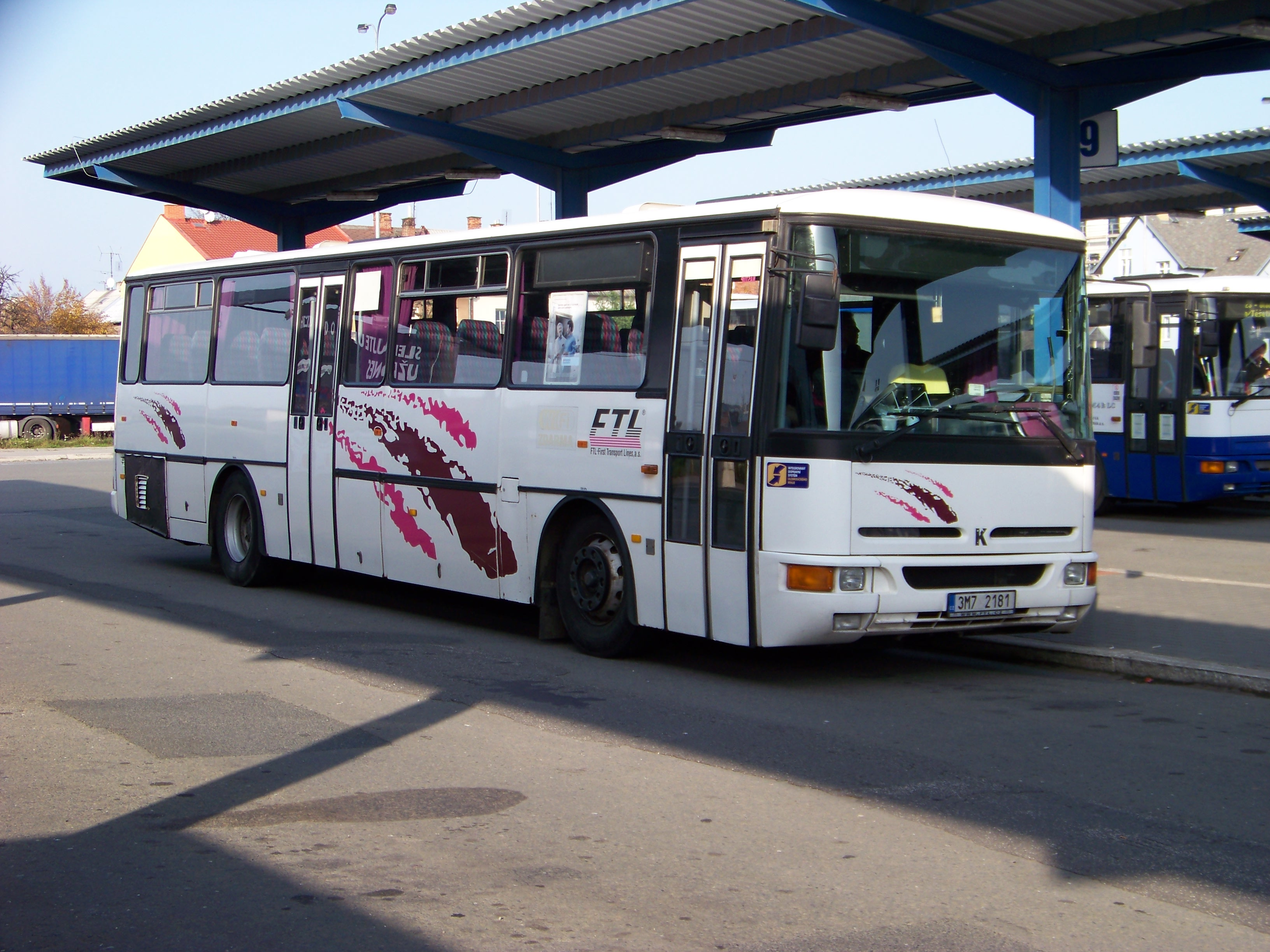 Olomouc-Hodolany, Olomouc District, Olomouc Region, Czech Republic. Bus station, Karosa C 935 of FTL.